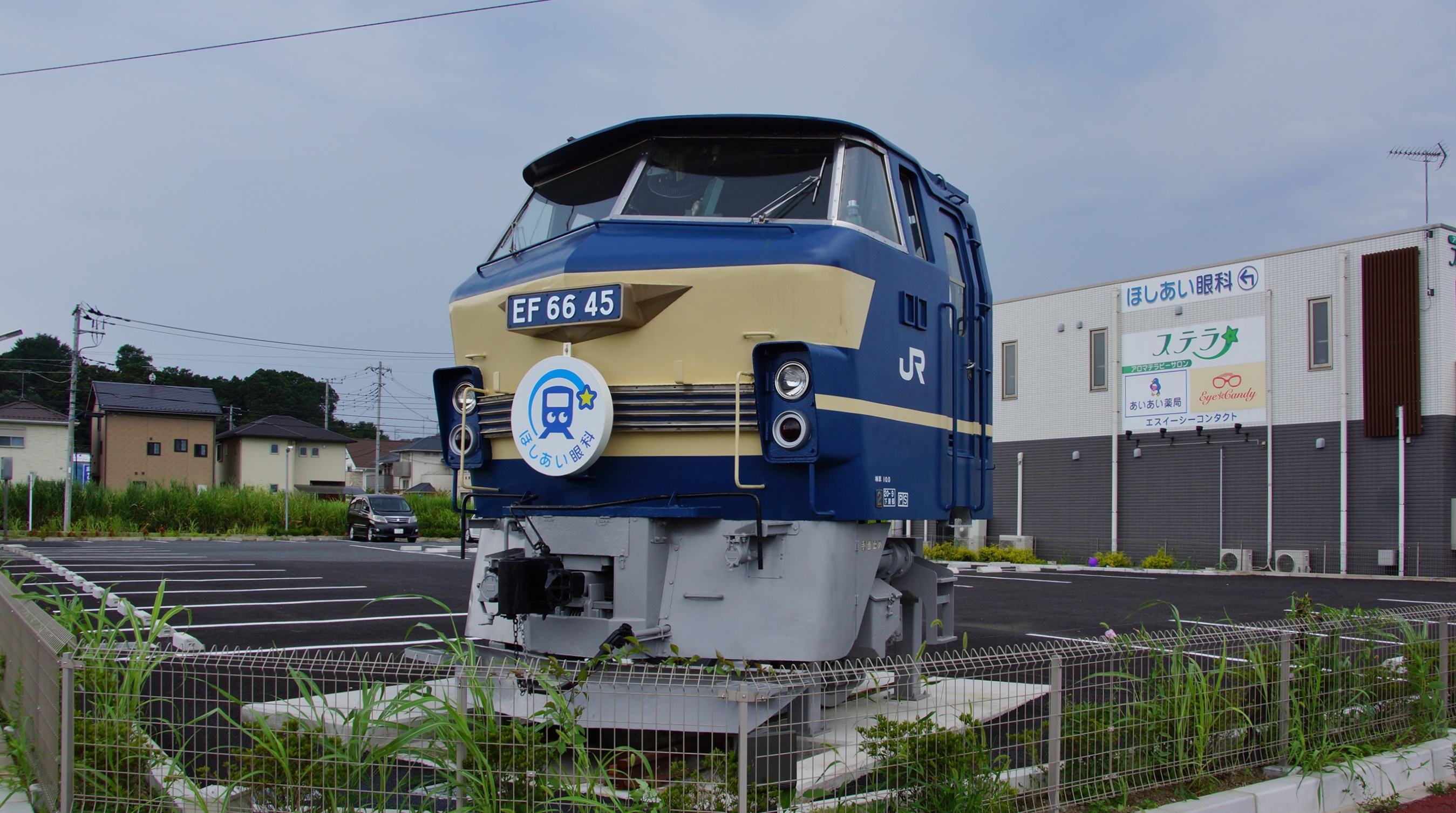 The No. 2 end cab section of former Class EF66 electric locomotive EF66 45 preserved in the car park of the Hoshiai Eye Clinic in Midori-ku, Saitama, Japan